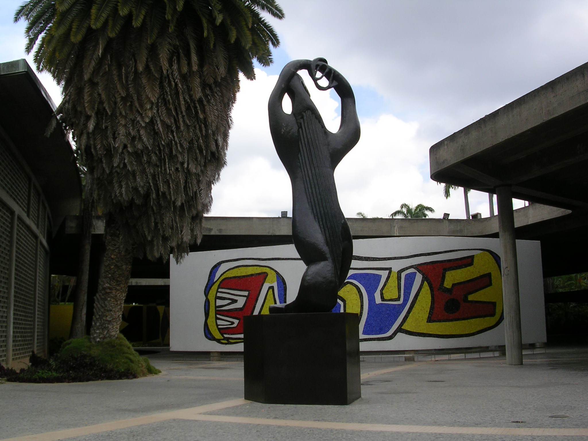 Henry Laurens (L'Amphion) and Leger (Bimural) Photo taken at the Covered Plaza of the Central University of Venezuela, Caracas Photo by Caracas1830 (2005)